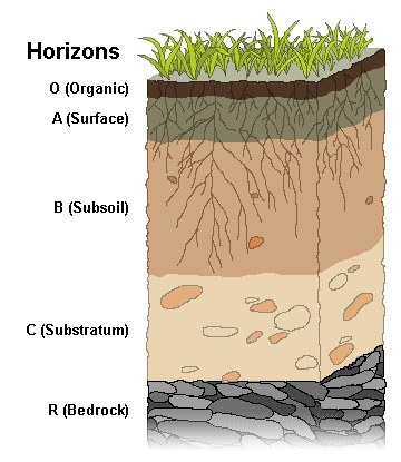 The soil profile with 5 horizons, edited and improved.